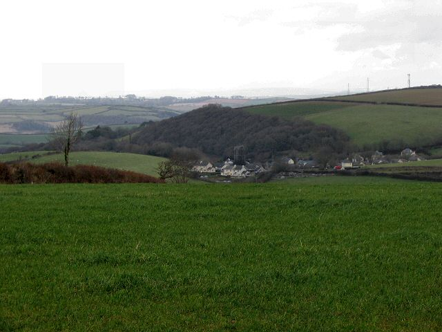 Halwell from near Moreleigh, South Devon. The small village of Halwell lies beside the busy A381 (Totnes to Kingsbridge). This photo shows how it nestles in the valley below the higher ground near Moreleigh.